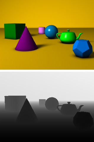 An image an the corresponding Z-buffer